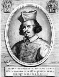 Engraving of Cardinal Carlo Rossetti, c. 1640